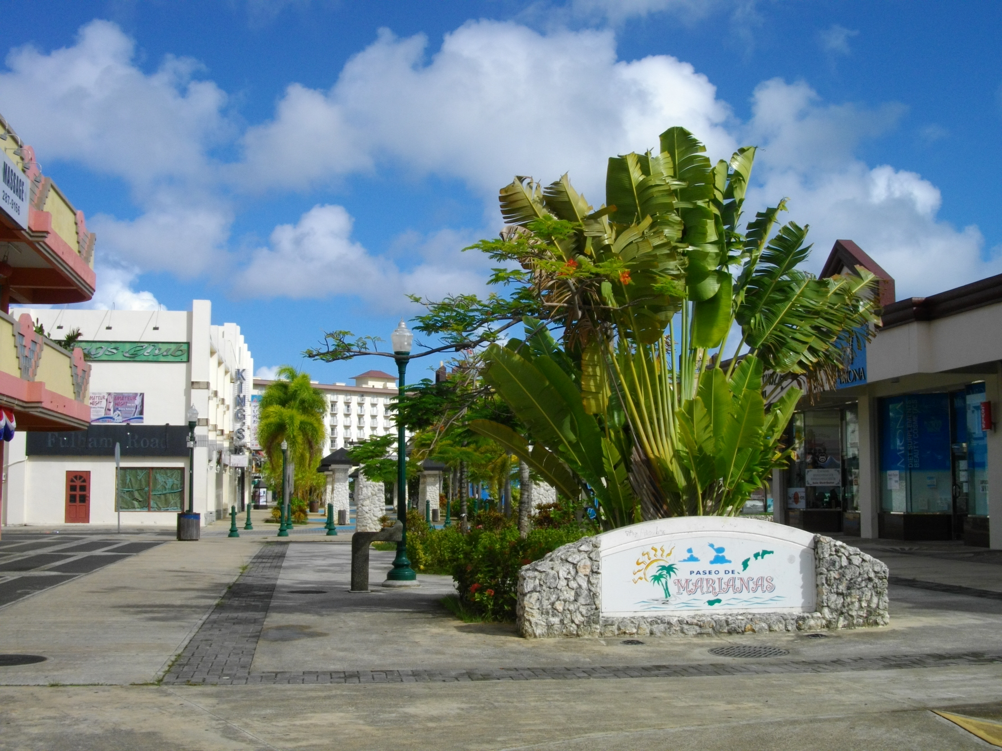 Paseo de Marianas